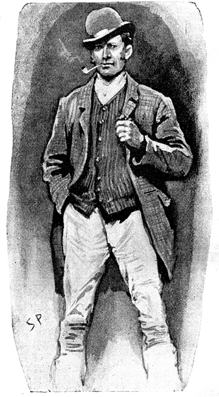 Illustration from the Sherlock Holmes story "Adventures of Sherlock Holmes I.--A Scandal in Bohemia", which appeared in The Strand Magazine in July, 1891. This illustration appeared on page 67, and is captioned, "A DRUNKEN-LOOKING GROOM."